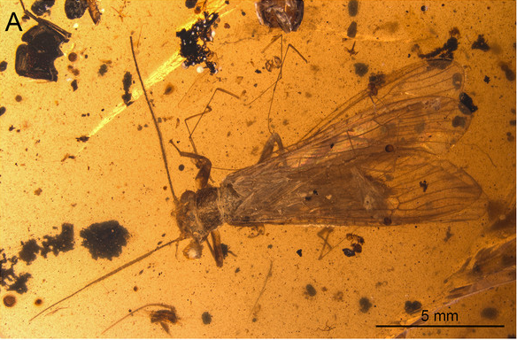 Largusoperla micktaylori sp. nov., holotype SMNS BU-227, photographs. (A) Dorsal view.